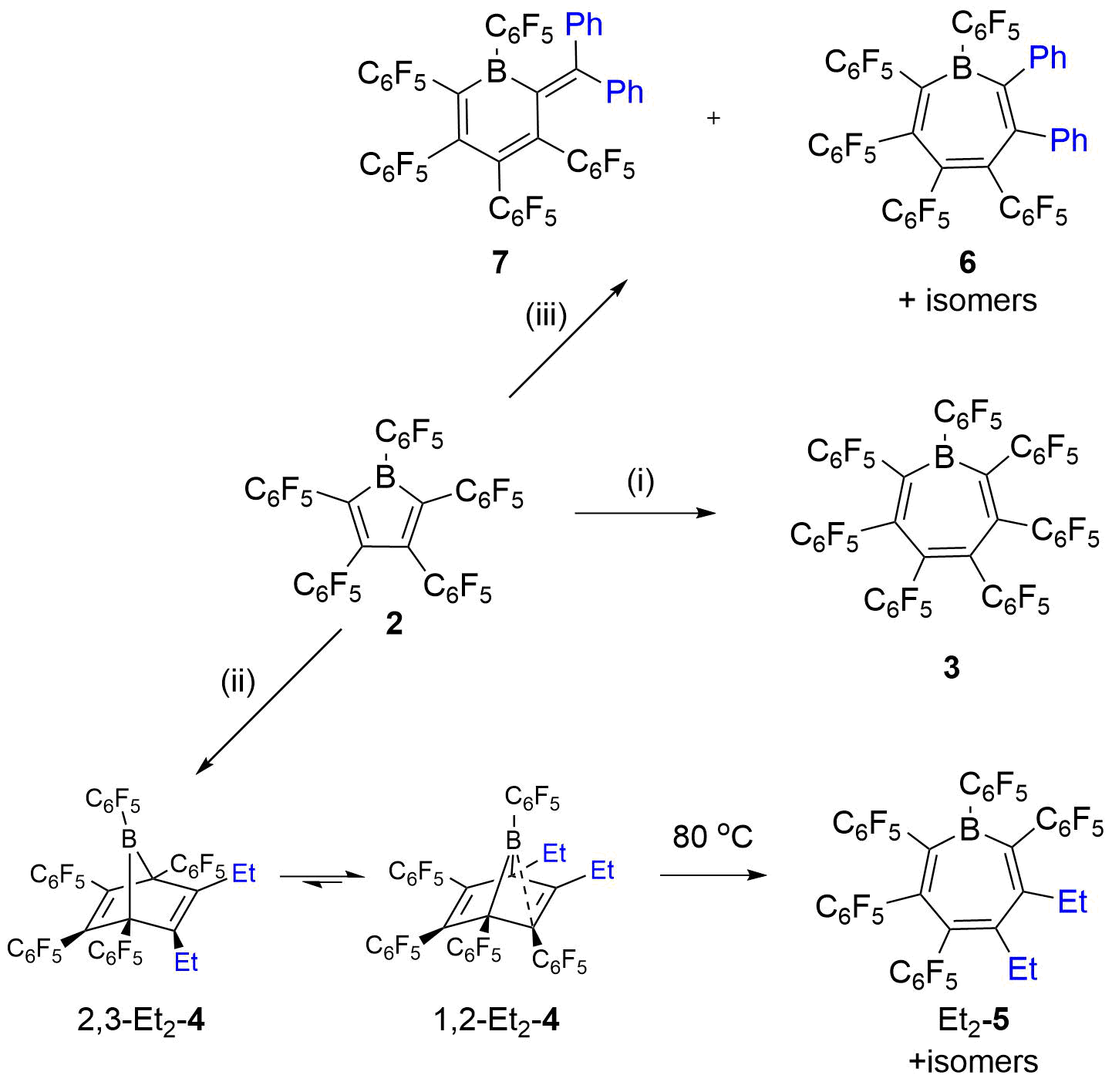 example